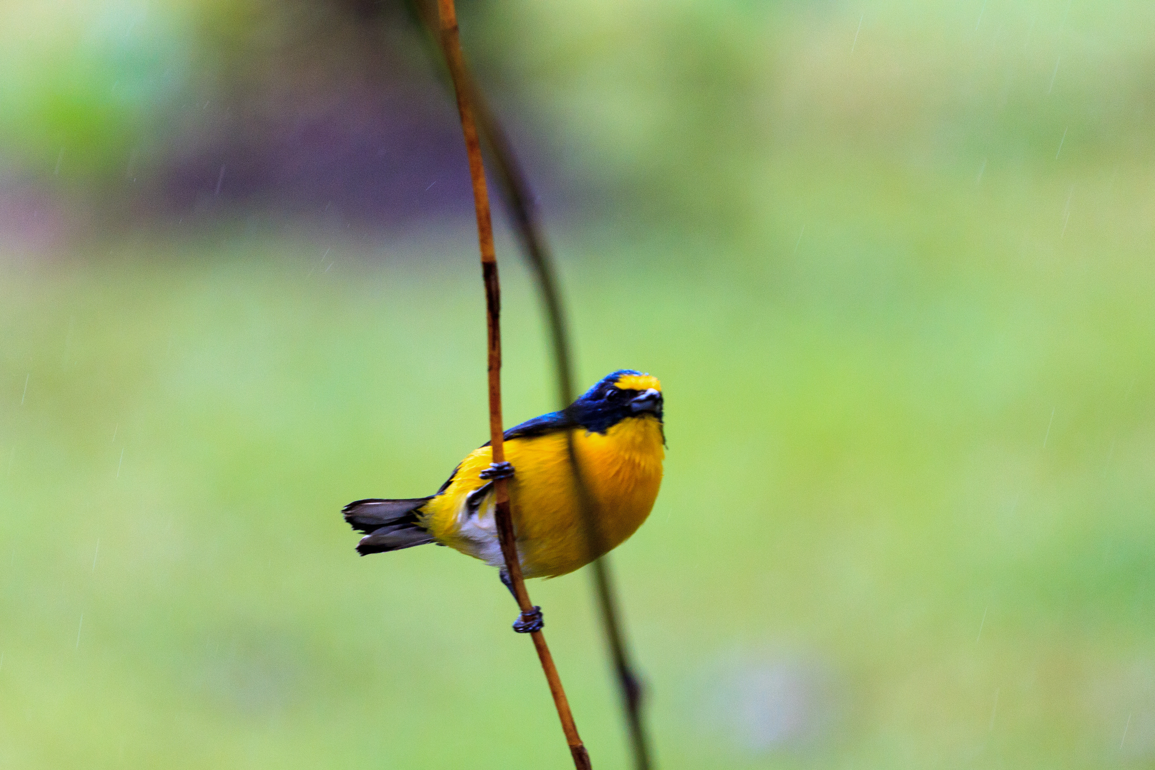 A male Yellow-throated Euphonia in Costa Rica.